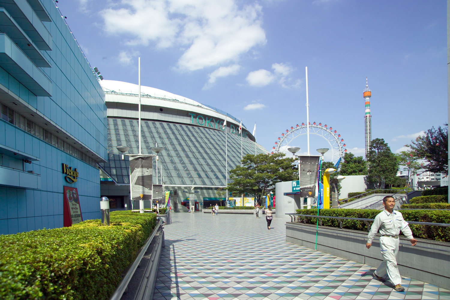 Tokyo Dome baseball stadium, adjacent to Suidobashi Station on JR Chuo-Sobu Line,Tokyo, Japan. I took the photo and release all my rights in this file to the public domain. Individuals and organizations retain rights to their images in the file.